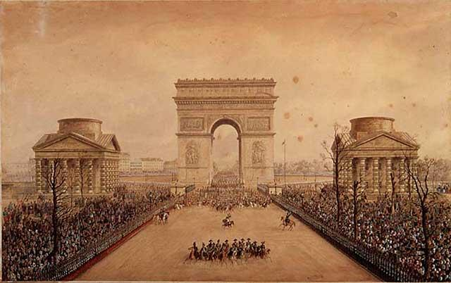 Entry of Napoleon III into Paris by Theodore Jung